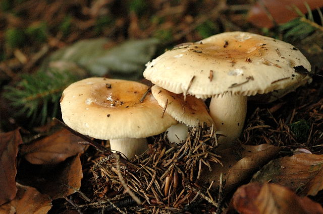 Russula fellea from Commanster, Belgium. The determination of the species shown in this picture has been verified.